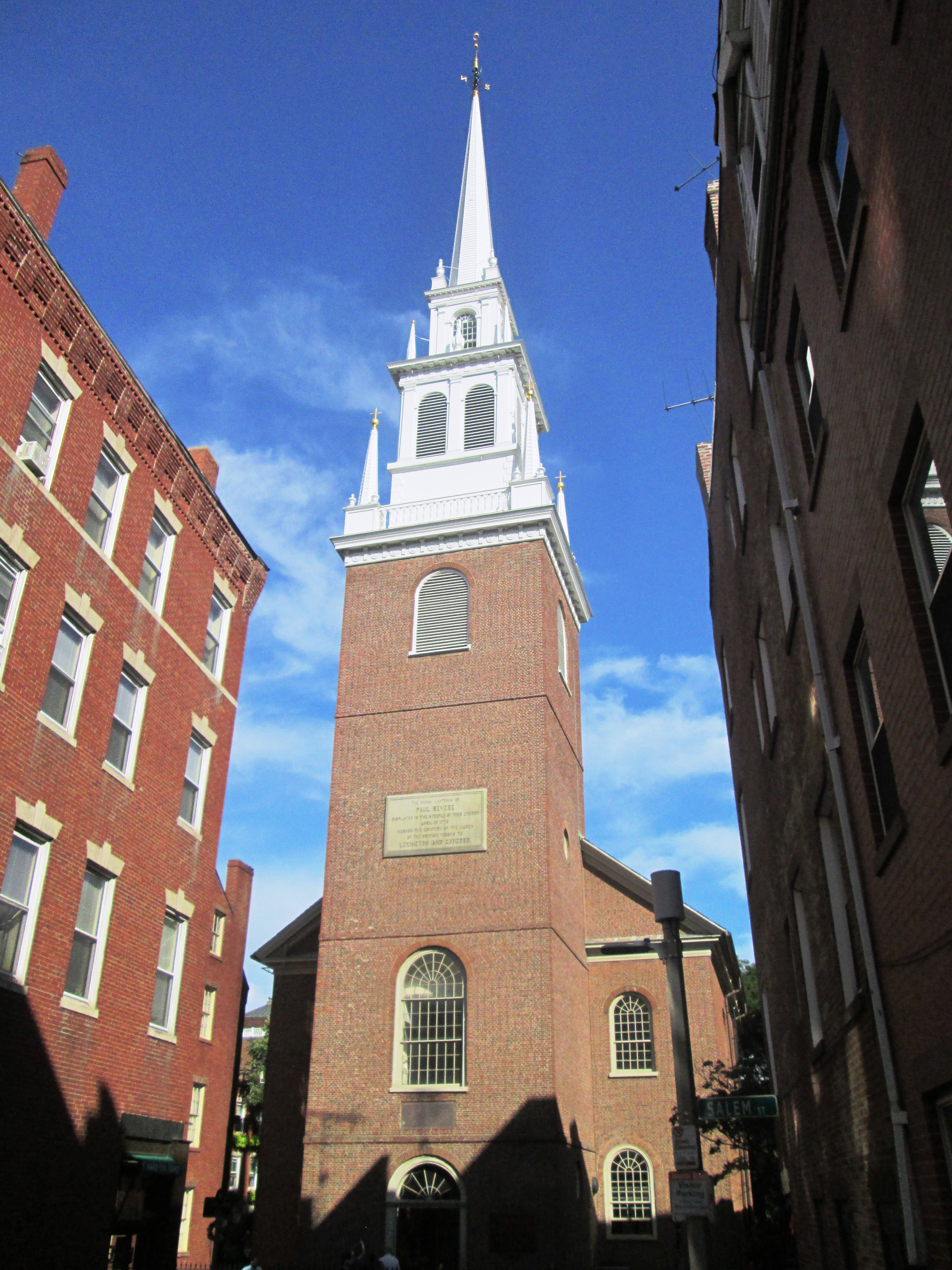 The Old North Church – officially, Christ Church in the City of Boston – at 193 Salem Street at the intersection of Hull Street in the North End neighborhood of Boston, Massachusetts, is the location from which the famous "One if by land, two if by sea" signal is said to have been sent. This phrase is related to Paul Revere's midnight ride, of April 18, 1775, which preceded the Battles of Lexington and Concord during the American Revolution. The church was built in 1723 and is the oldest standing church building in Boston and a National Historic Landmark.